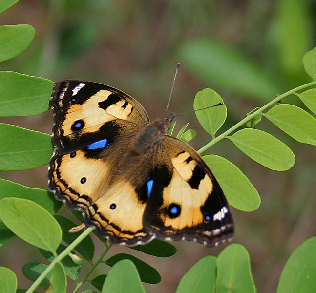 Yellow Pansy Junonia hierta in Talakona forest, in Chittoor District of Andhra Pradesh, India.